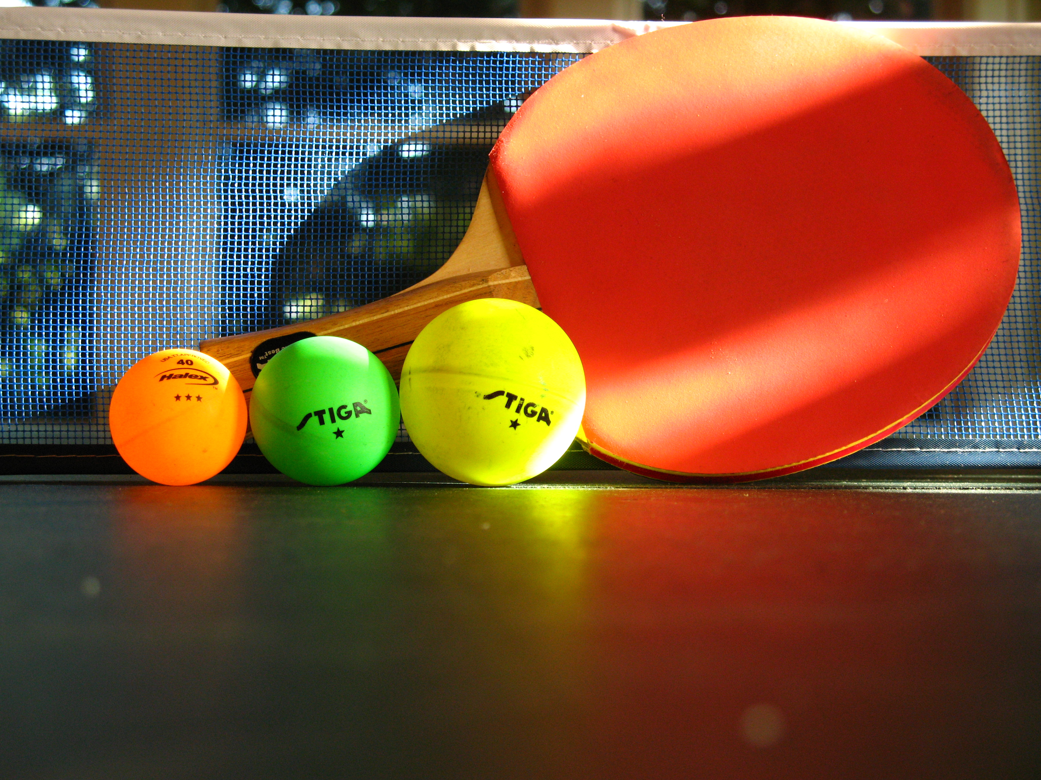 40mm, 44mm, and 54mm celluloid spheres for table tennis